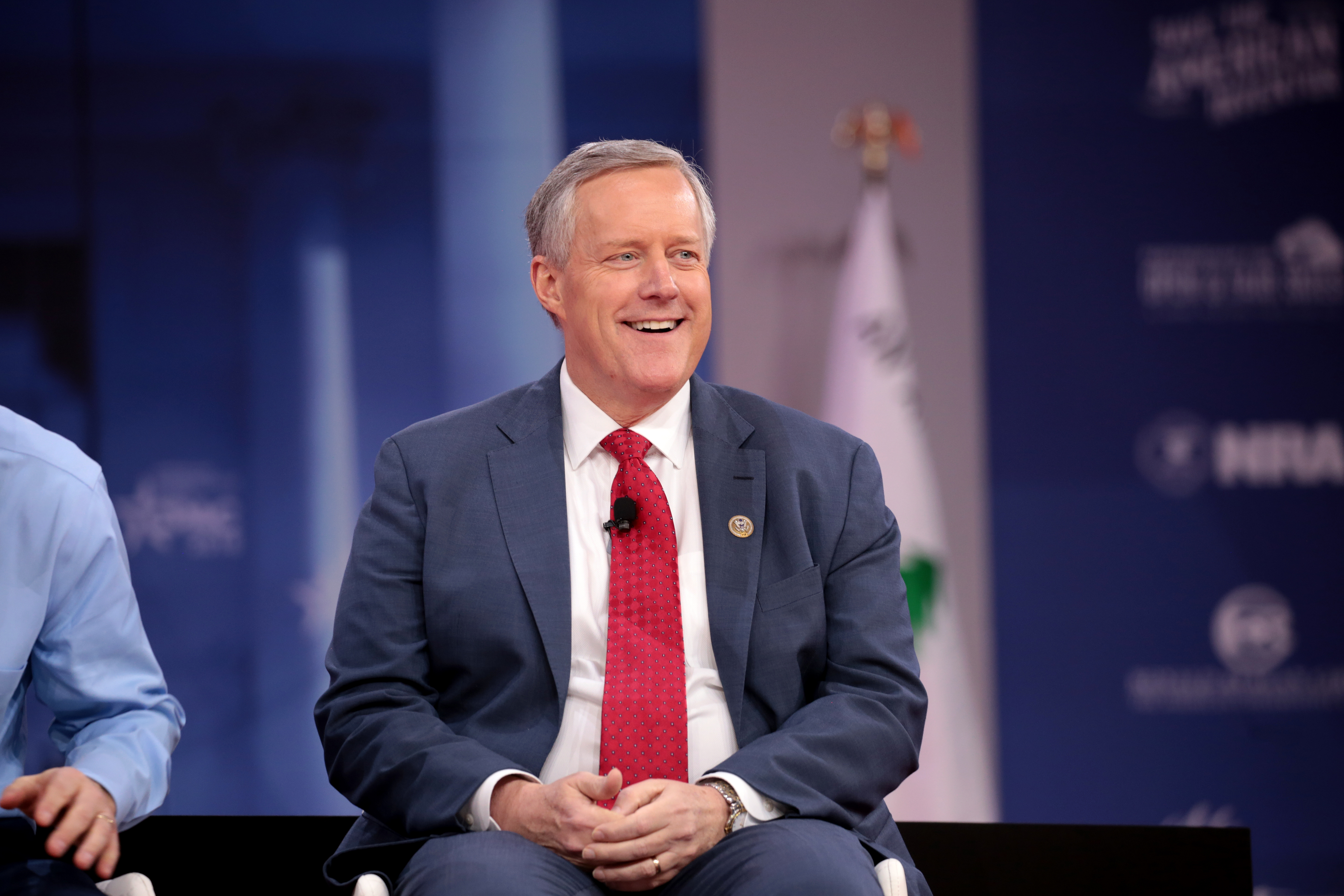 U.S. Congressman Mark Meadows speaking at the 2018 Conservative Political Action Conference (CPAC) in National Harbor, Maryland.